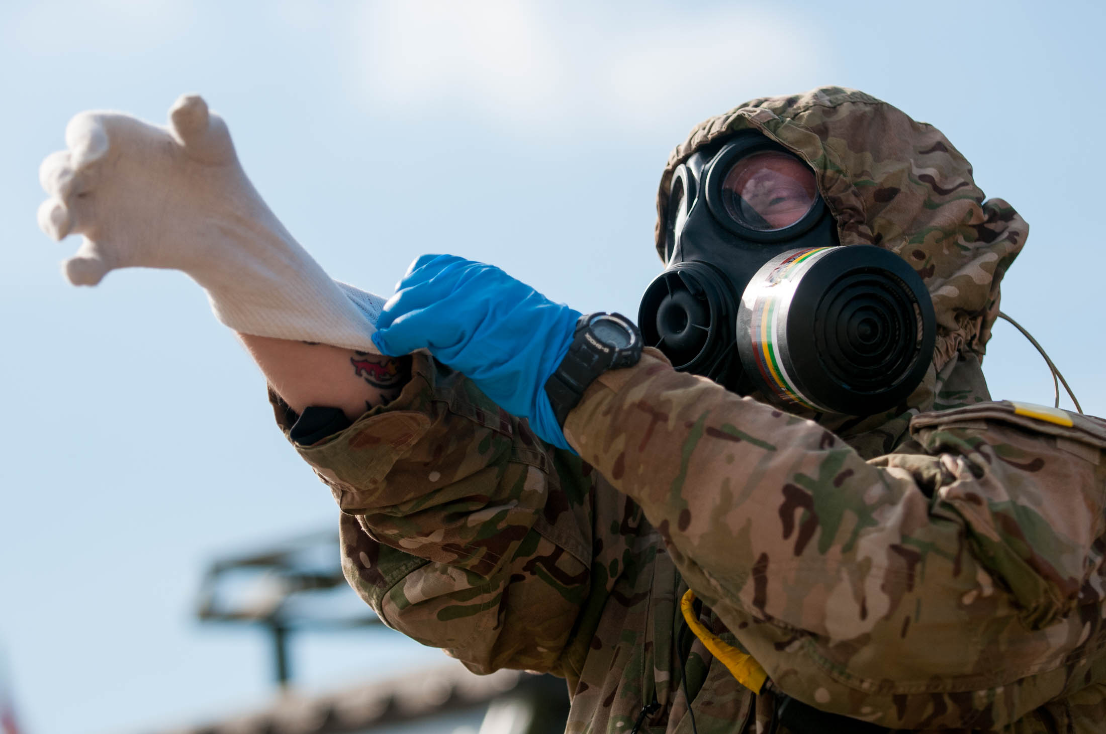 421st Multifunctional Medical Battalion Soldiers cross train with Danish Army’s CBRN & GEO KMP decontamination unit for familiarization of their decontamination processes in a deployed setting at Trident Juncture 2015 in San Gregorio, Spain (U.S. Army photo by Capt. Jeku Arce 30th Medical Brigade Public Affairs).